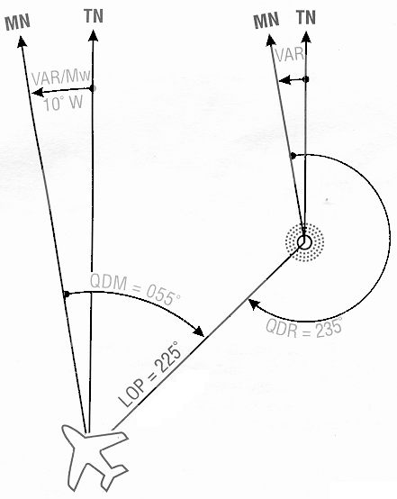 Vector diagram of magnetic bearing. Useful for navigation